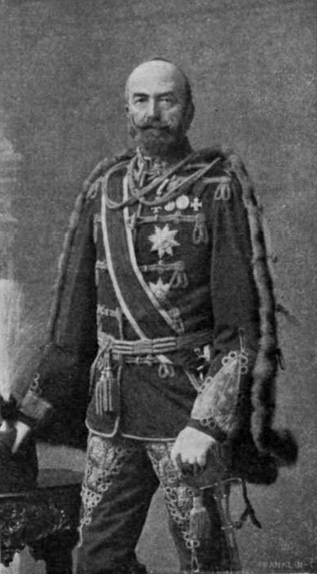 Gyula Forinyák